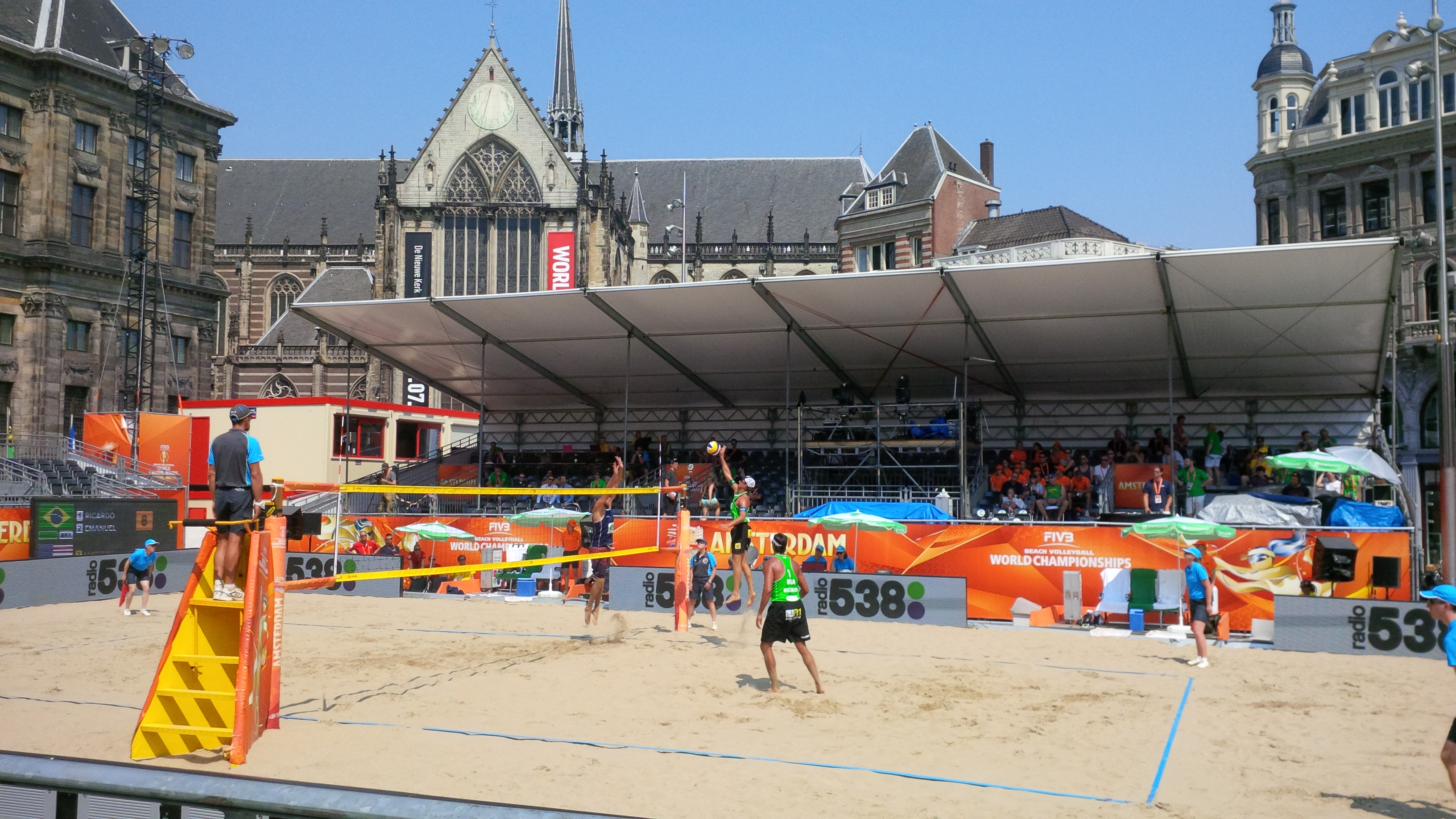 2015 Beach Volleyball WC, round of 16. Emanuel Rego and Ricardo Santos (Brazil) versus Nicholas Lucena and Theo Brunner (USA) at Dam Square, Amsterdam, the Netherlands. Lucena not visible, he's behind the referee.